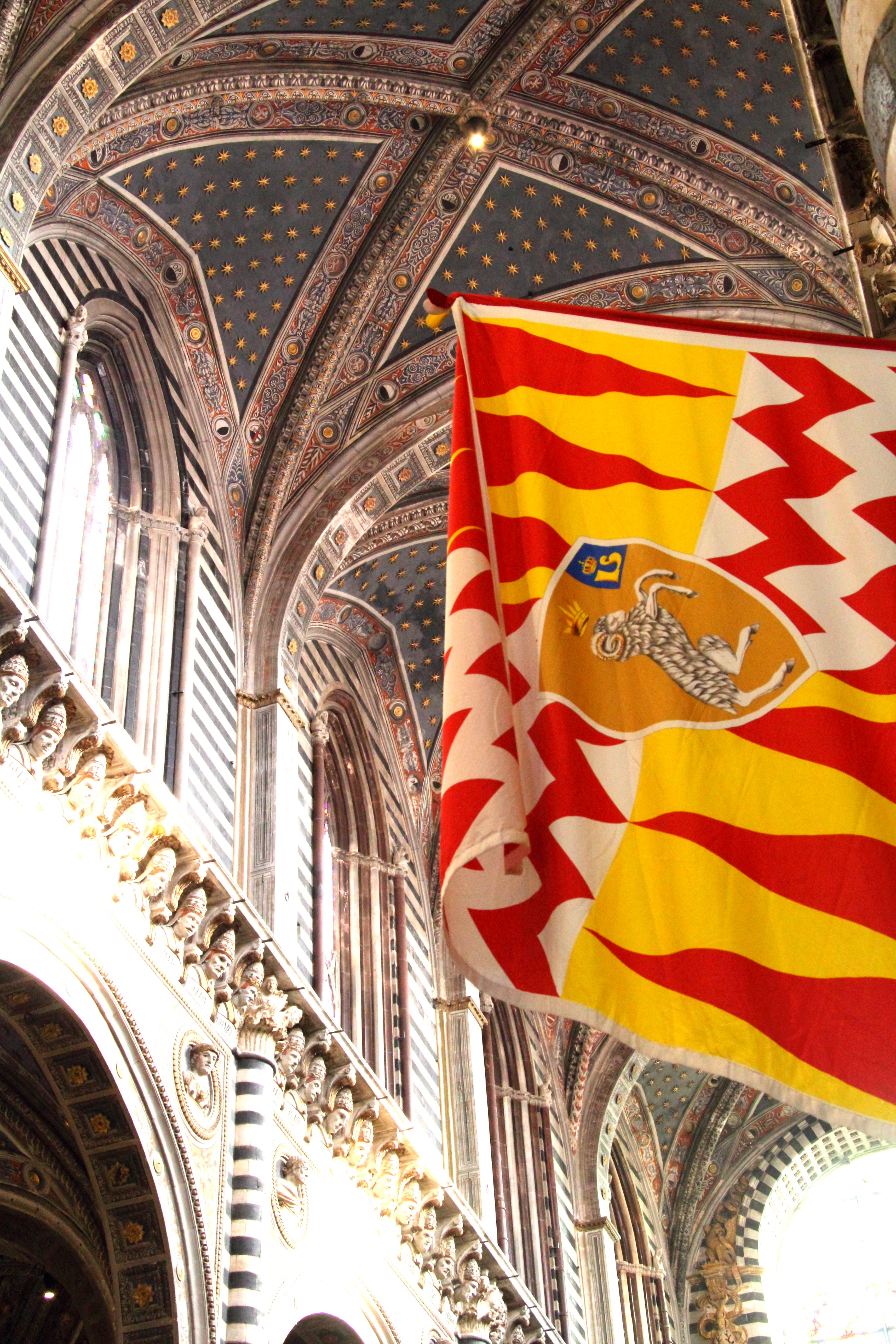 Siena, Italy - flag of "Valdimontone" ("Valley of the Ram") contrada in the city's cathedral